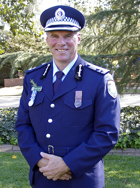 New South Wales Police Force, Wagga Wagga Local Area Commander, Superintendent Frank Goodyer.